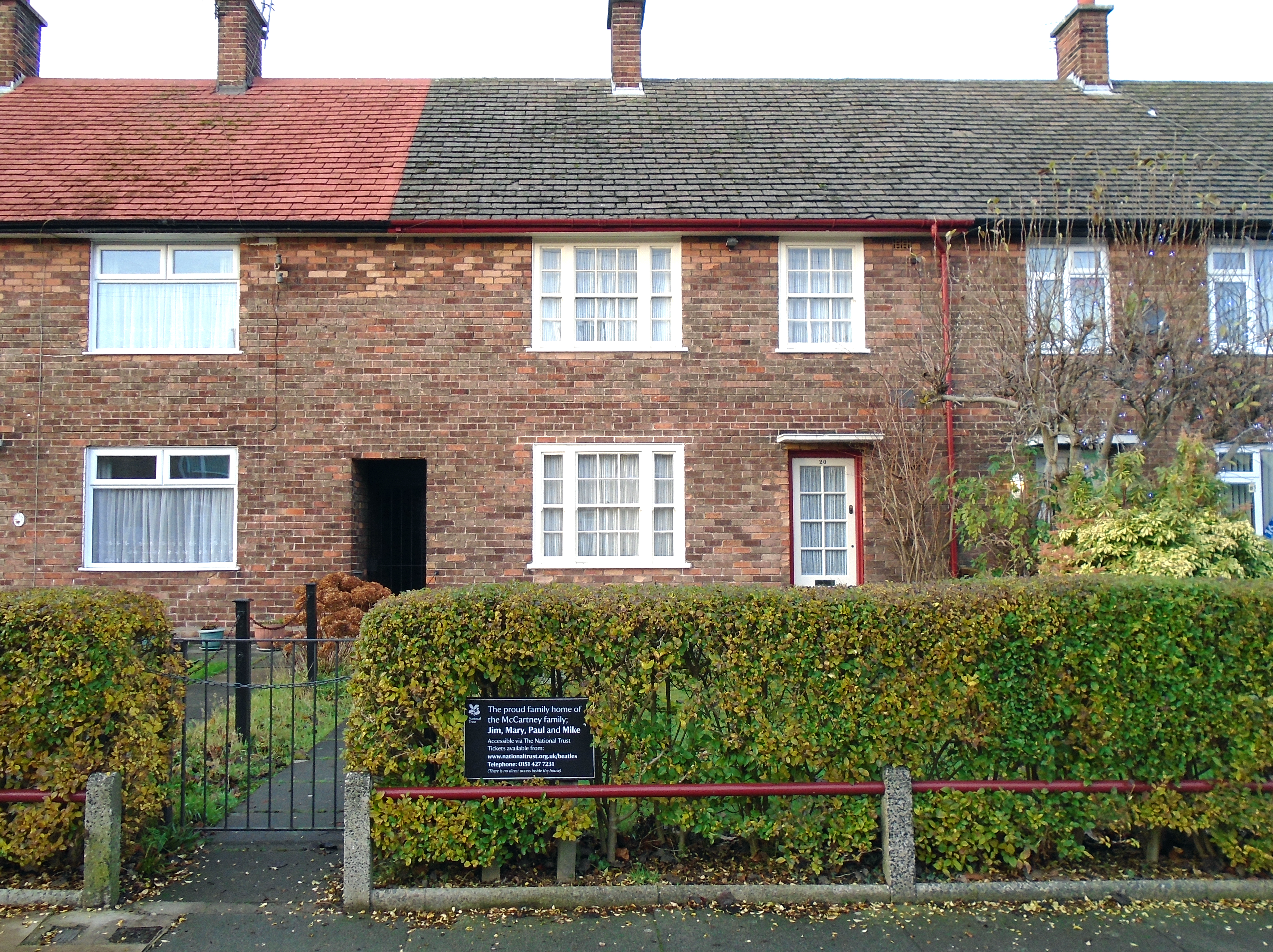 20 Forthlin Road in context